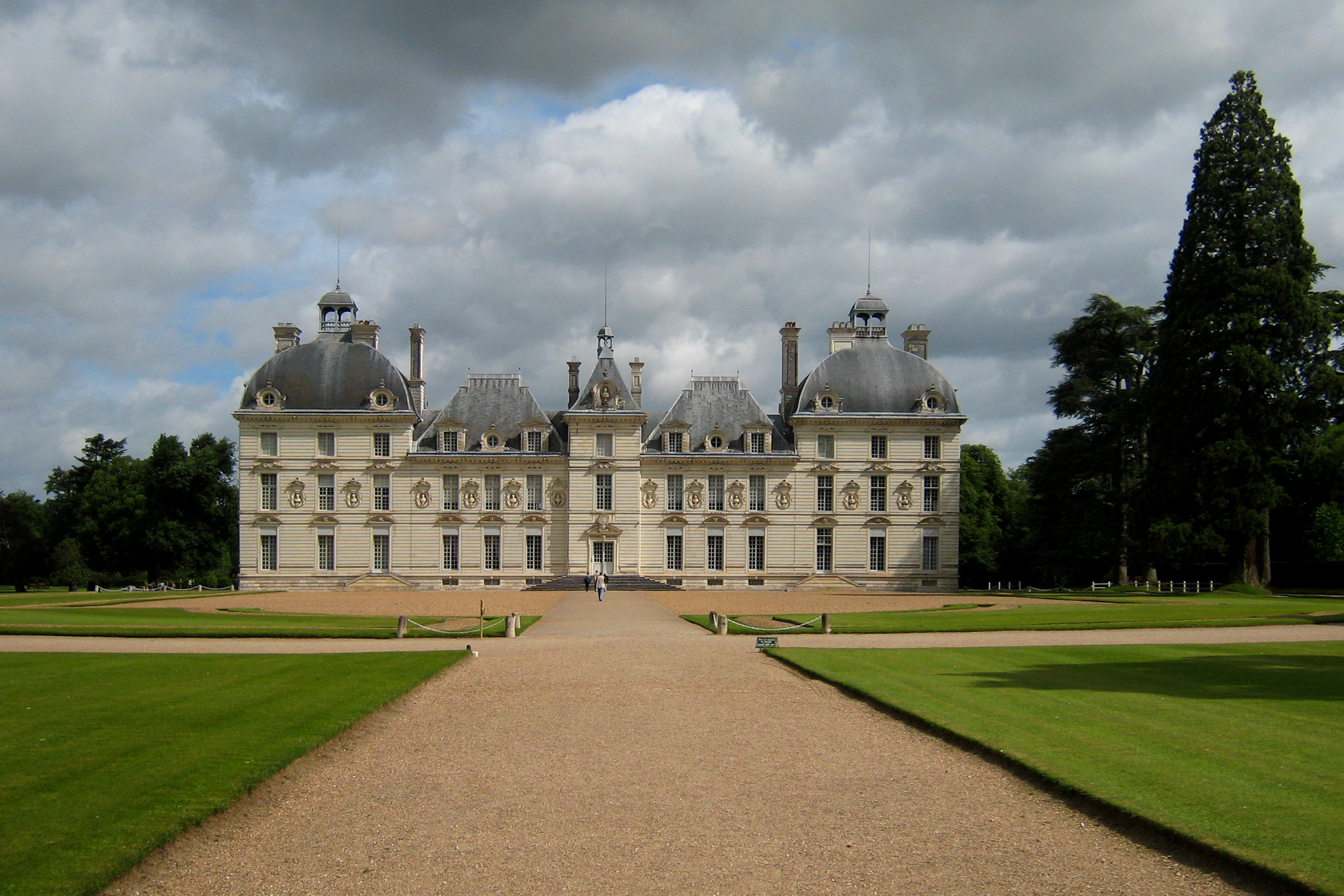 Castle of Cheverny, Loir-et-Cher, France